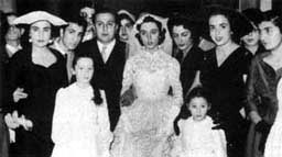 Fayrouz and Assi Rahbani on their wedding day surrounded by members of their families; Fayrouz's younger sisters Hoda and Amal appear before the bride and bridegroom.